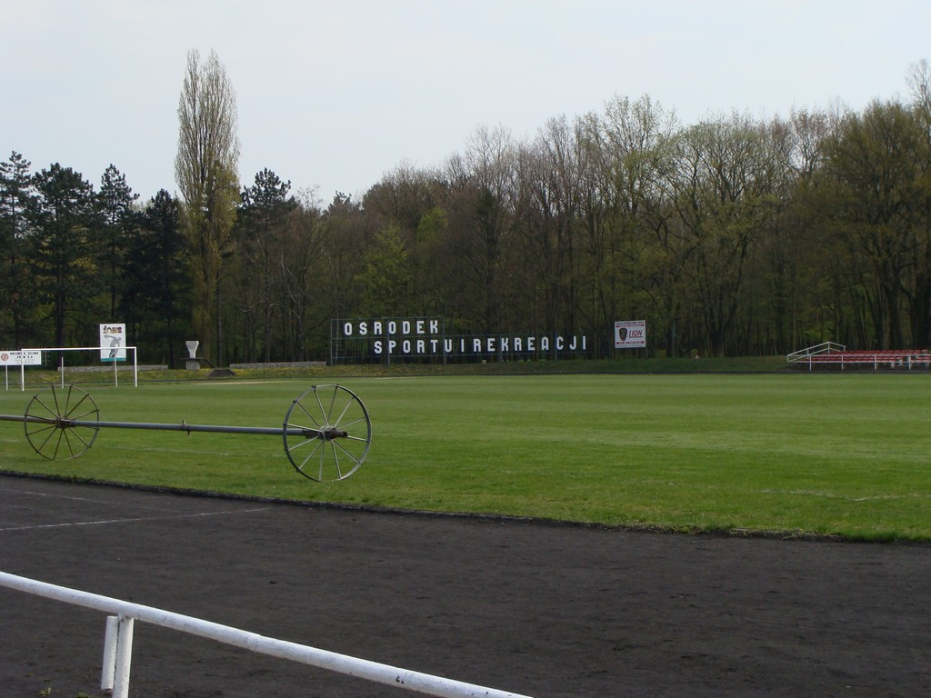 Śrem, Park of Insurgents of Greater Poland, city stadium.